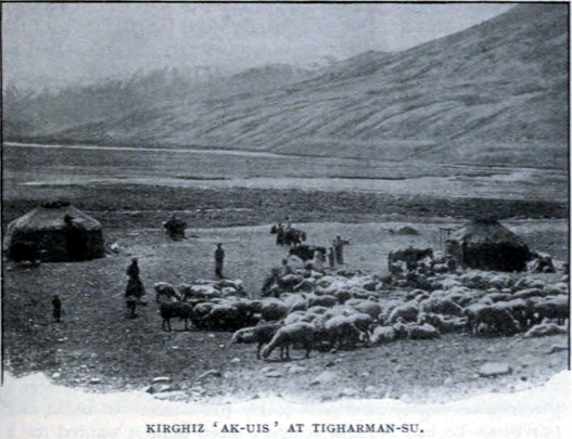 Kirghiz 'Ak-uis' (yurt; literally "white building") at Tigharman-su